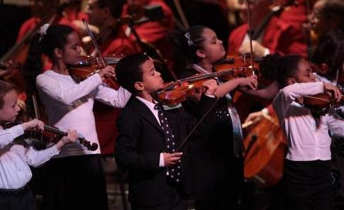 Schiel School Suzuki Strings perform with the Cincinnati Pops Orchestra at gala opening of the Erich Kunzel Center for Arts and Education in Cincinnati, Ohio.